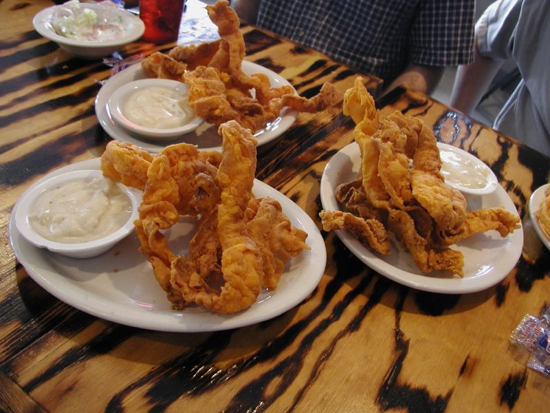 Chicken fried bacon with cream gravy from Snook, Texas in 2002.